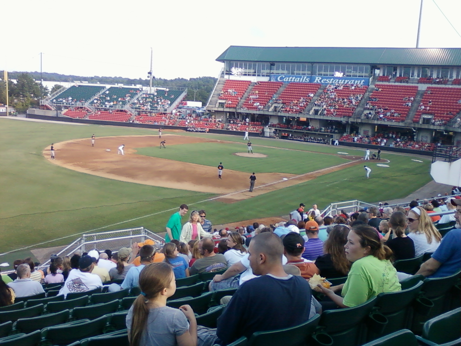 Picture of the Carolina Mudcats and Montgomery Biscuits playing at Five County Stadium